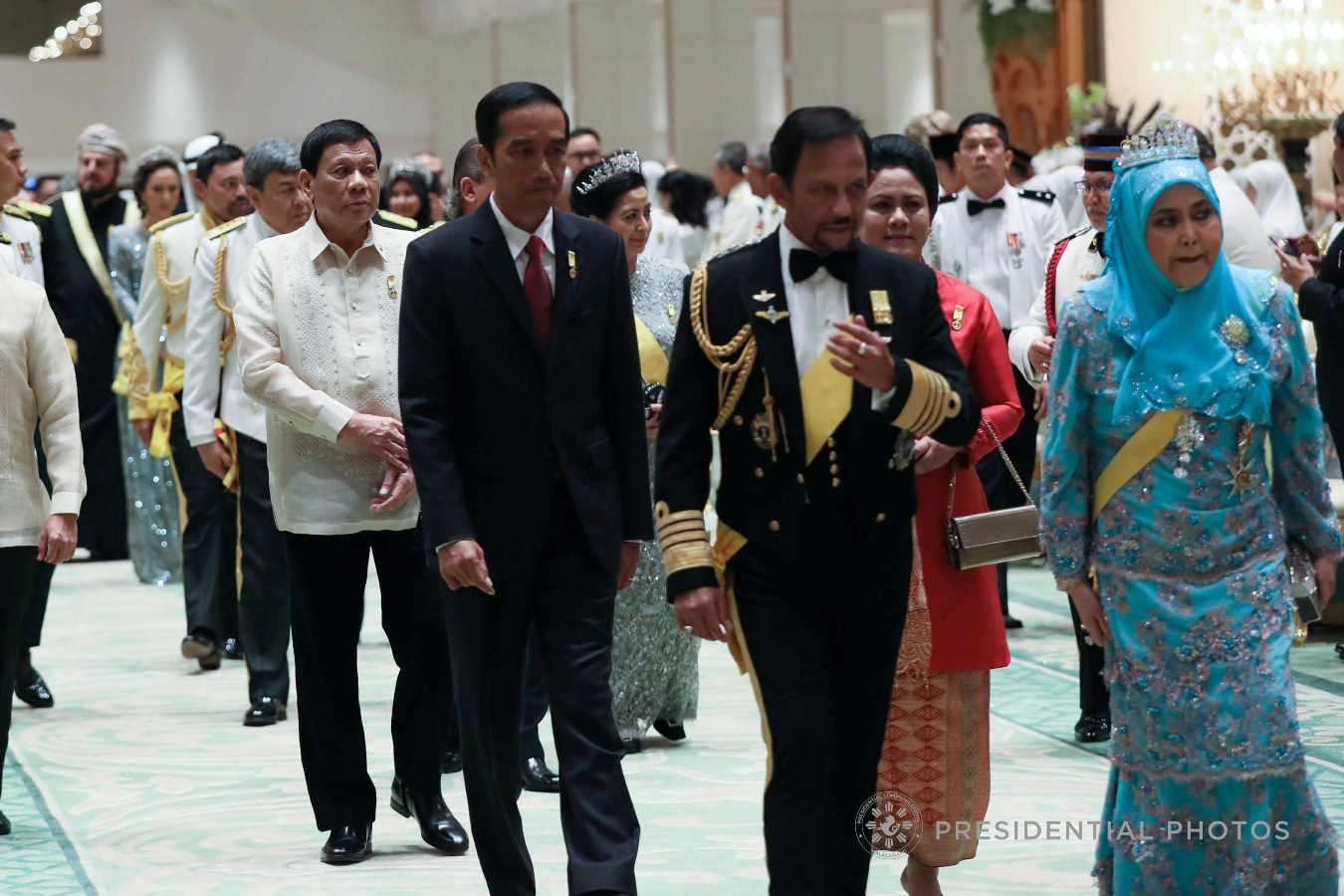 President Rodrigo Roa Duterte attends the golden jubilee celebration of Sultan Hassanal Bolkiah's accession to the throne at the Istana Nurul Iman in Brunei Darussalam on October 6, 2017. Also attending the grand celebration are Jordan;s King Abdullah II, Bahrain's Crown Prince Salman bin Hammad Al Khalifa, United Kingdom's Prince Edward and Princess Sophie, Cambodian Prime Minister Hun Sen, Indonesian President Joko Widodo, Malaysian Prime Minister Najib Razak, Thailand's Prime Minister Prayut Chan-o cha, Singaporean Prime Minister Lee Hsien Loong, Laotian Vice President Phankham Viphavanh, Myanmar's Foreign Minister Daw Aung San Suu Kyi, Vietnamese Vice President Dang Thi Ngoc Thinh, and Oman's Deputy Prime Minister Sayyid Asaad bin Tarizq al-Said. ACE MORANDANTE/PRESIDENTIAL PHOTO